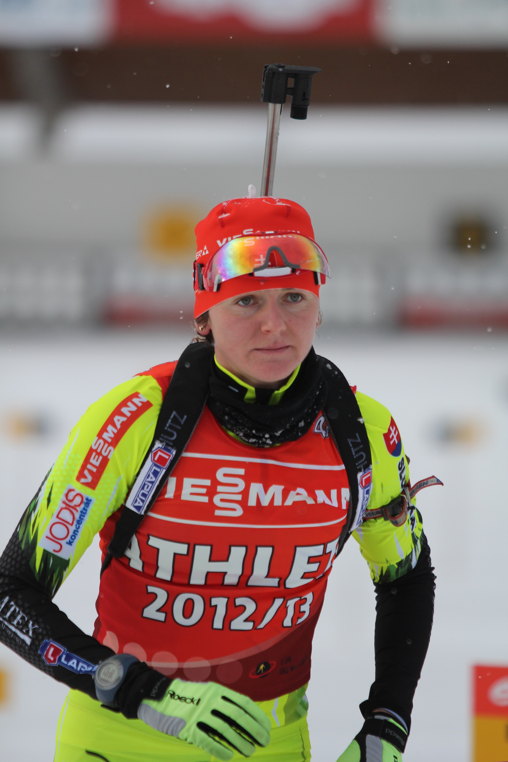 Jana Gereková at biathlon worldcup 2012 in Hochfilzen